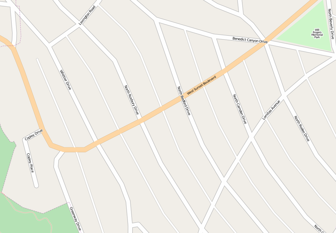 Beverly Hills, California, computer image generated using OpenStreetMap